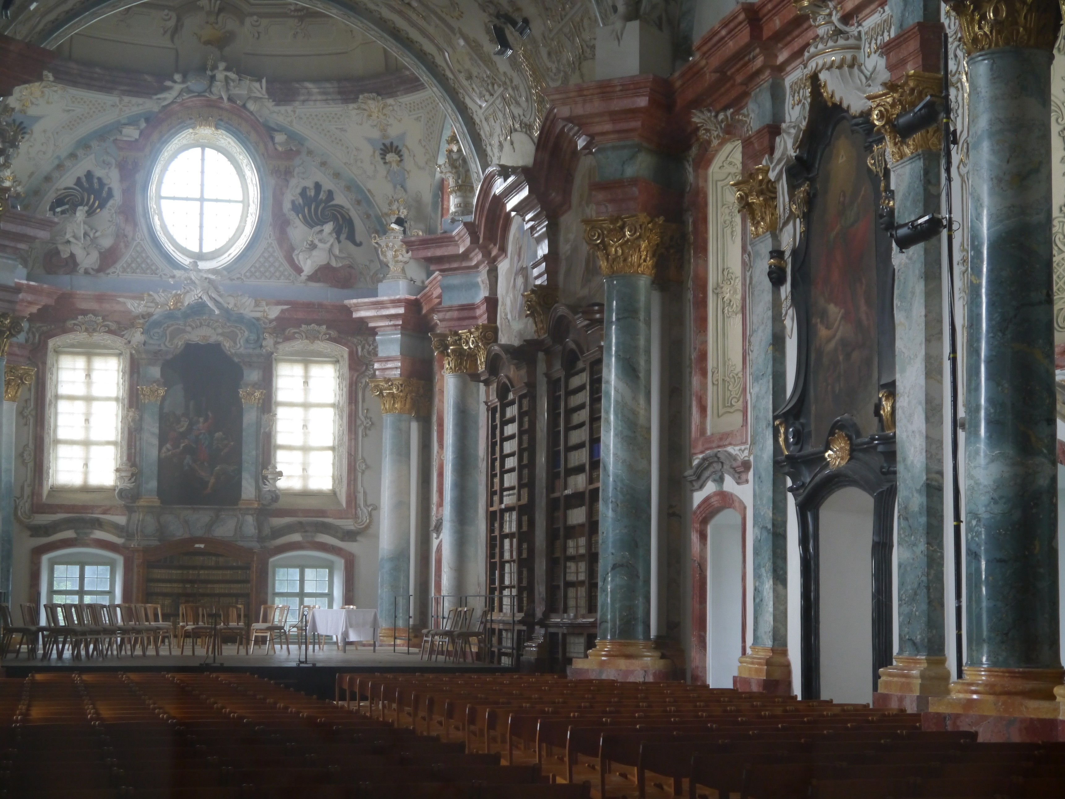 Library of Altenburg Abbey, Altenburg